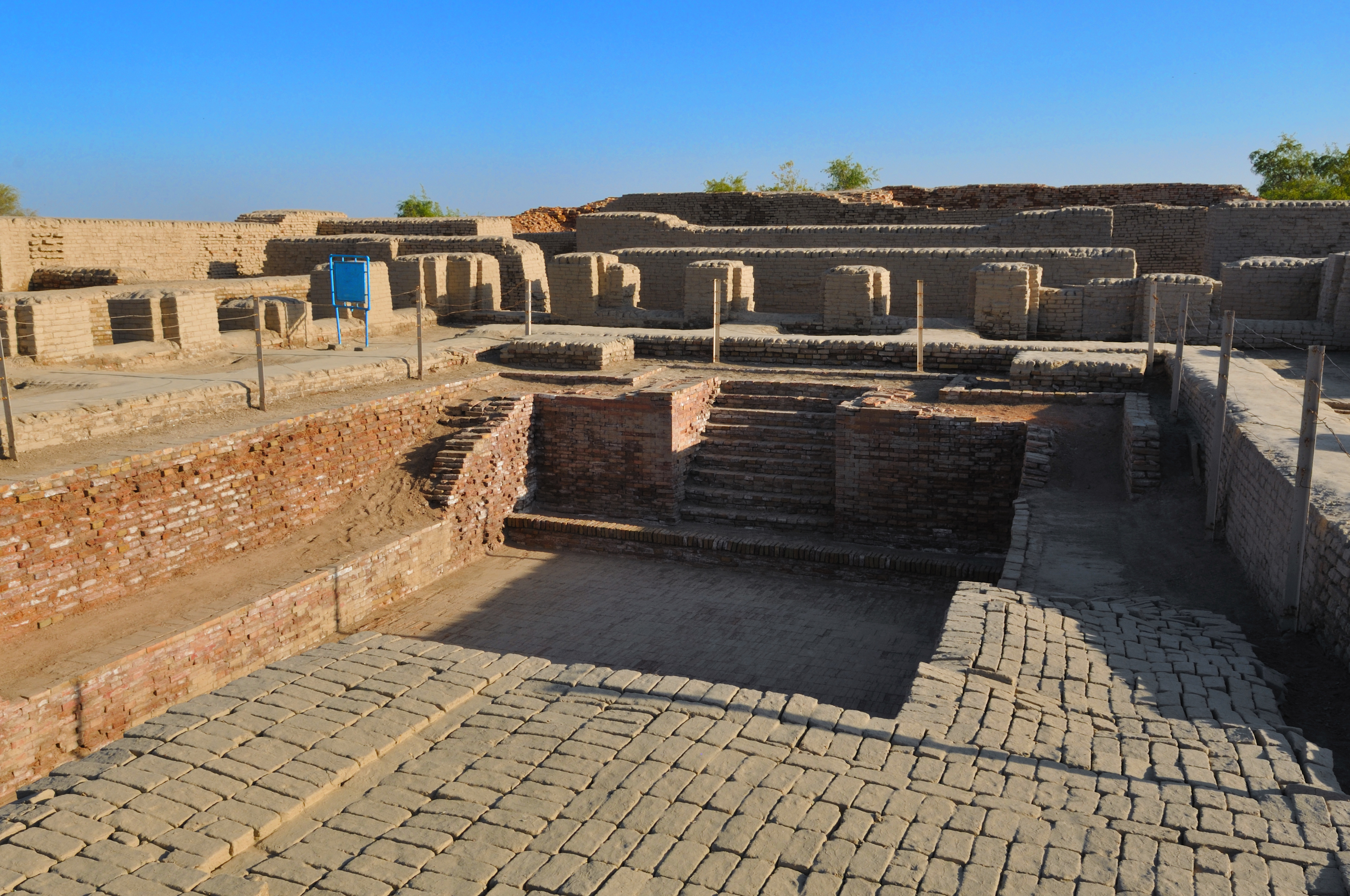 The Great Bath of Moenjodaro This is a photo of a monument in Pakistan identified as the SD-43